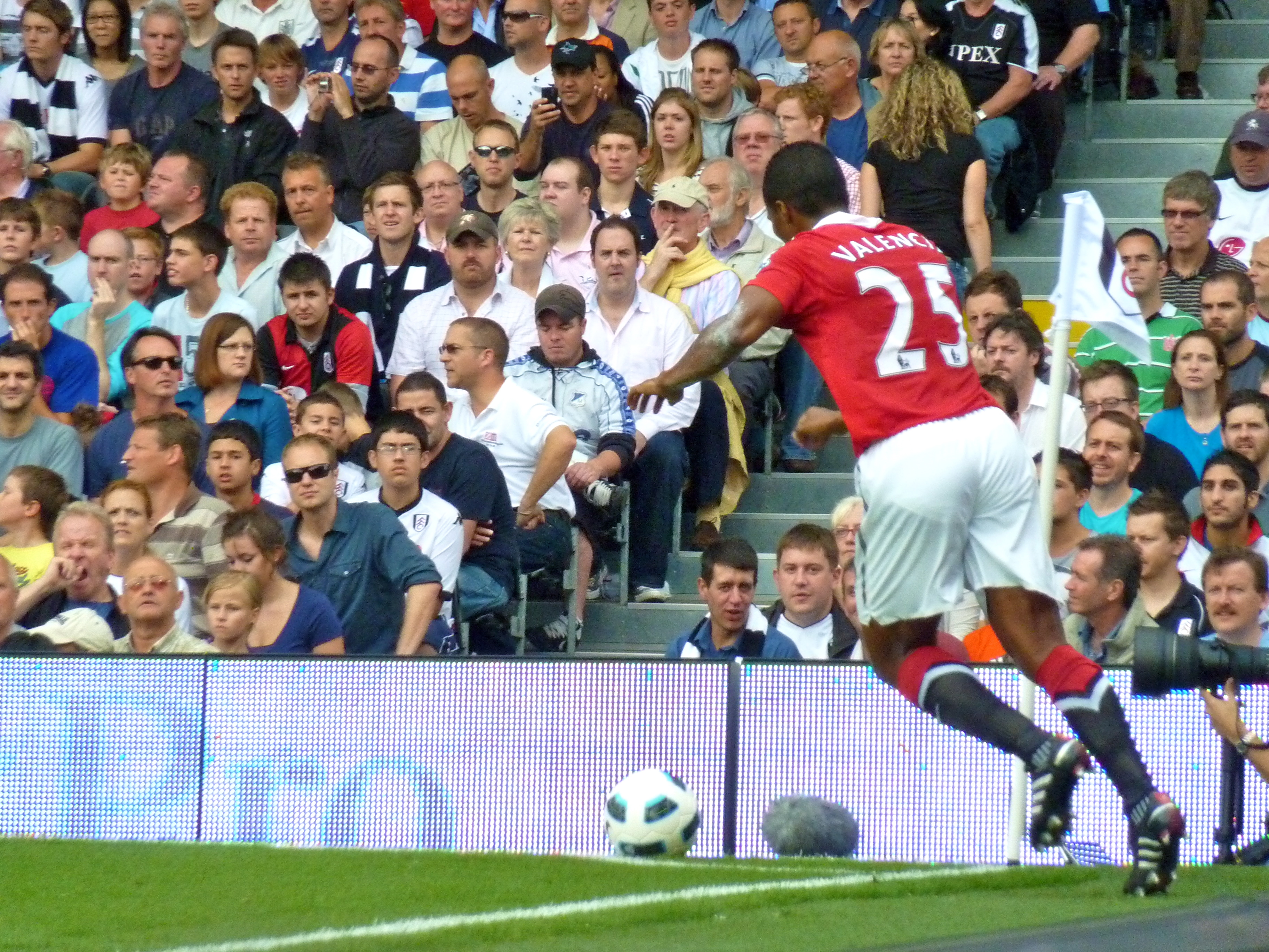 Antonio Valencia takes a corner kick against Fulham F.C. at Craven Cottage, London.